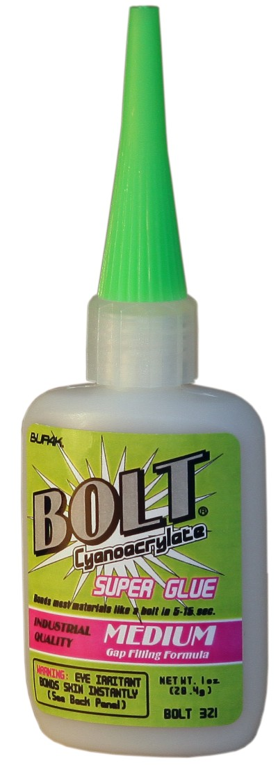 Original Europe Industrial Super Glue